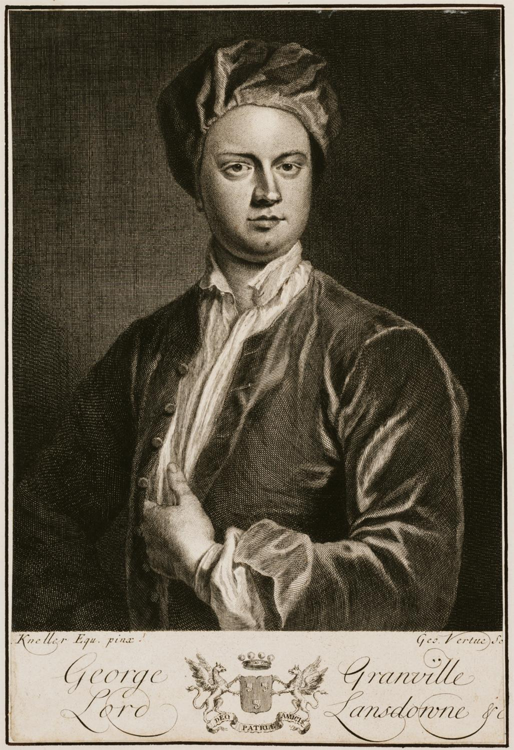 Portrait of George Granville (1666-1735)